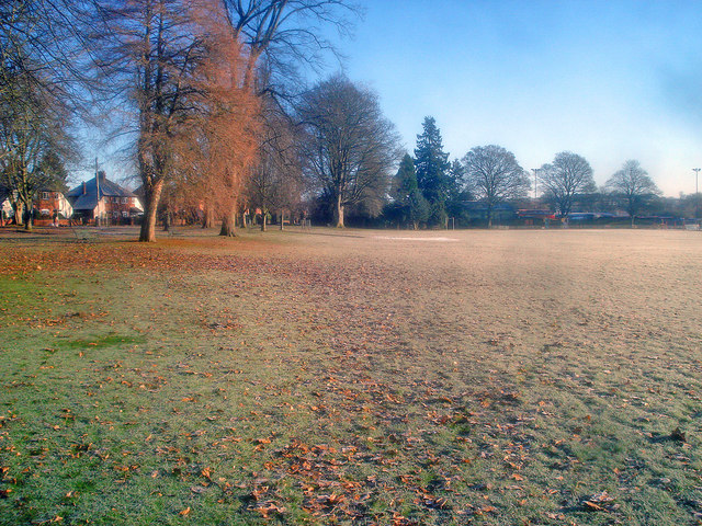 The Recreation Ground Looking east across the top end of the Kington Recreation Ground. The morning sun is making little impression on the frozen ground. On the left a row of semis on Park Avenue. In 1888 Thomas Skarratt Hall donated this 12-acre area of parkland, bordered to the south by the River Arrow, in a Charitable Trust for the people of Kington. 'Australian Tom' made his fortune in the Australian gold mines and became a well-known benefactor to the town.